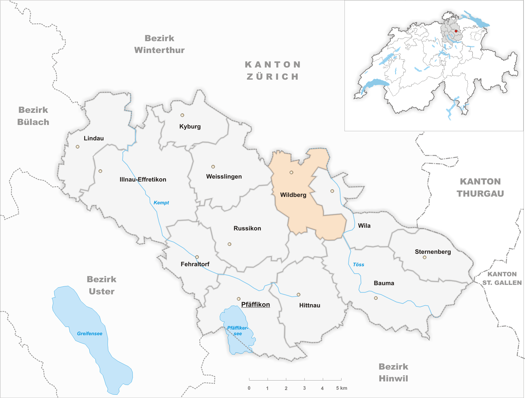 Municipality Wildberg